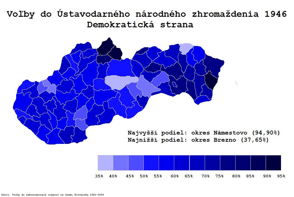 Democratic Party (DS) results in 1946 Czechoslovak parliament elections - district level. More intense blue means stronger result of DS